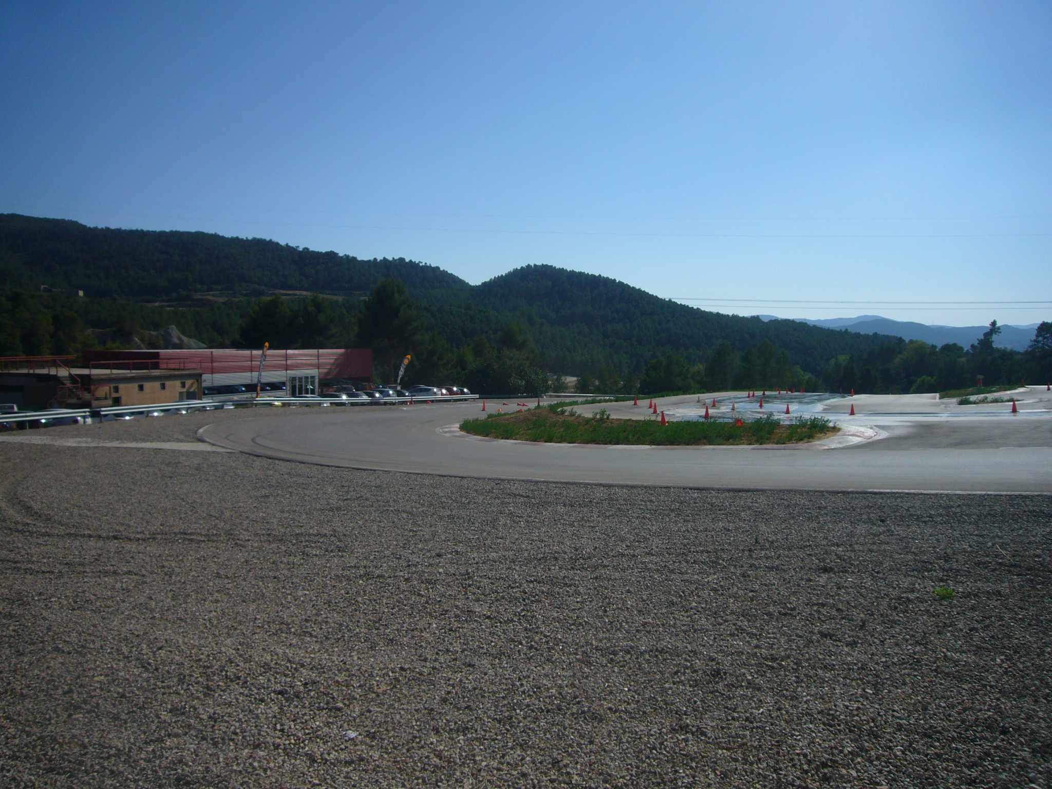 Parcmotor Castellolí. Driving school circuit